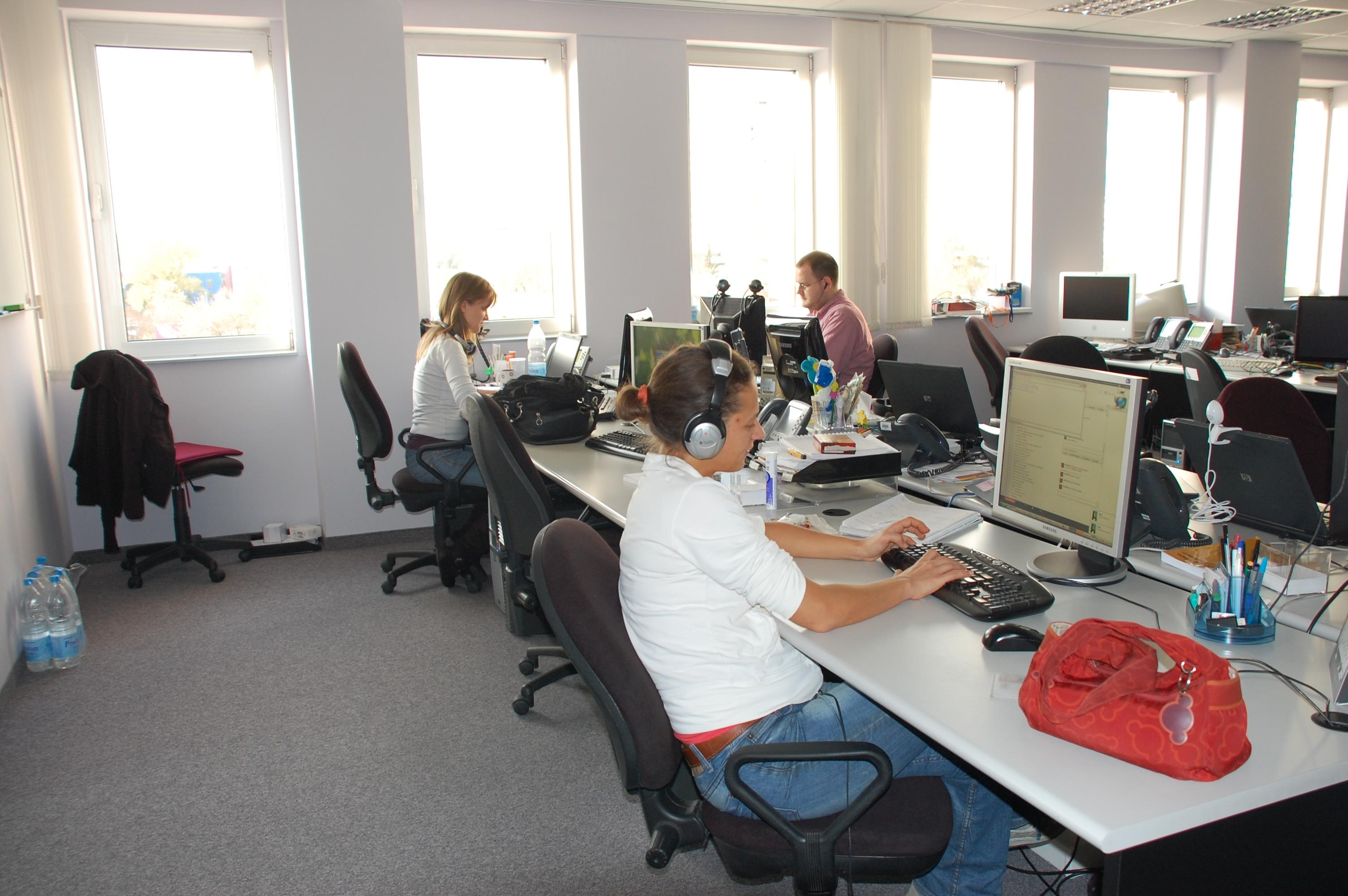 Illustration of workplace in PSTech company, Belgrade, Serbia